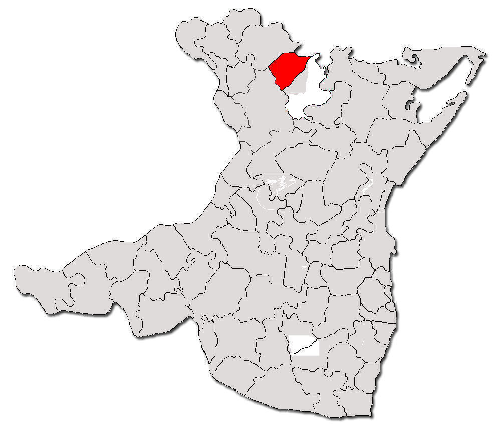 Contour of Vulturu commune